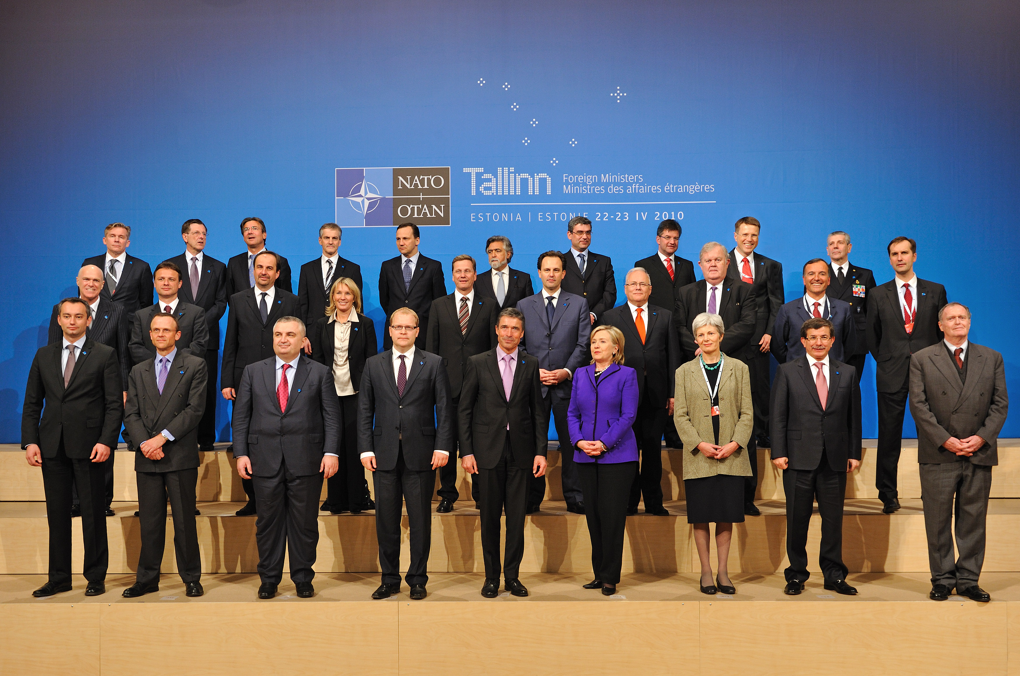 Informal Meeting of NATO Foreign Ministers. Estonia Theatre, Tallinn, Estonia. Official Portrait. First row: Nikolay Mladenov, ?, Ilir Meta, Urmas Paet, Anders Fogh Rasmussen, Hillary Rodham Clinton, Mariot Leslie, Ahmet Davutoğlu, ?